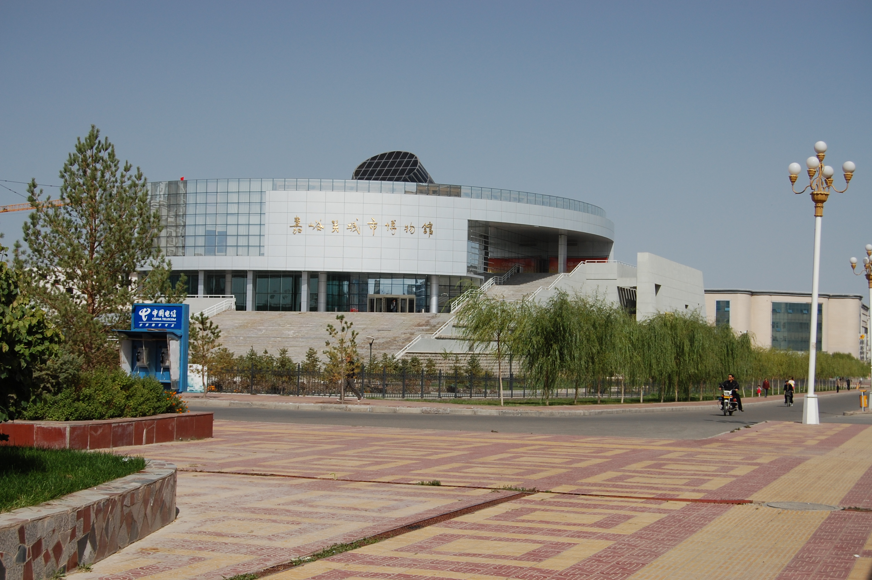 City Museum of Jiayuguan, Gansu Province, China (built 2008)